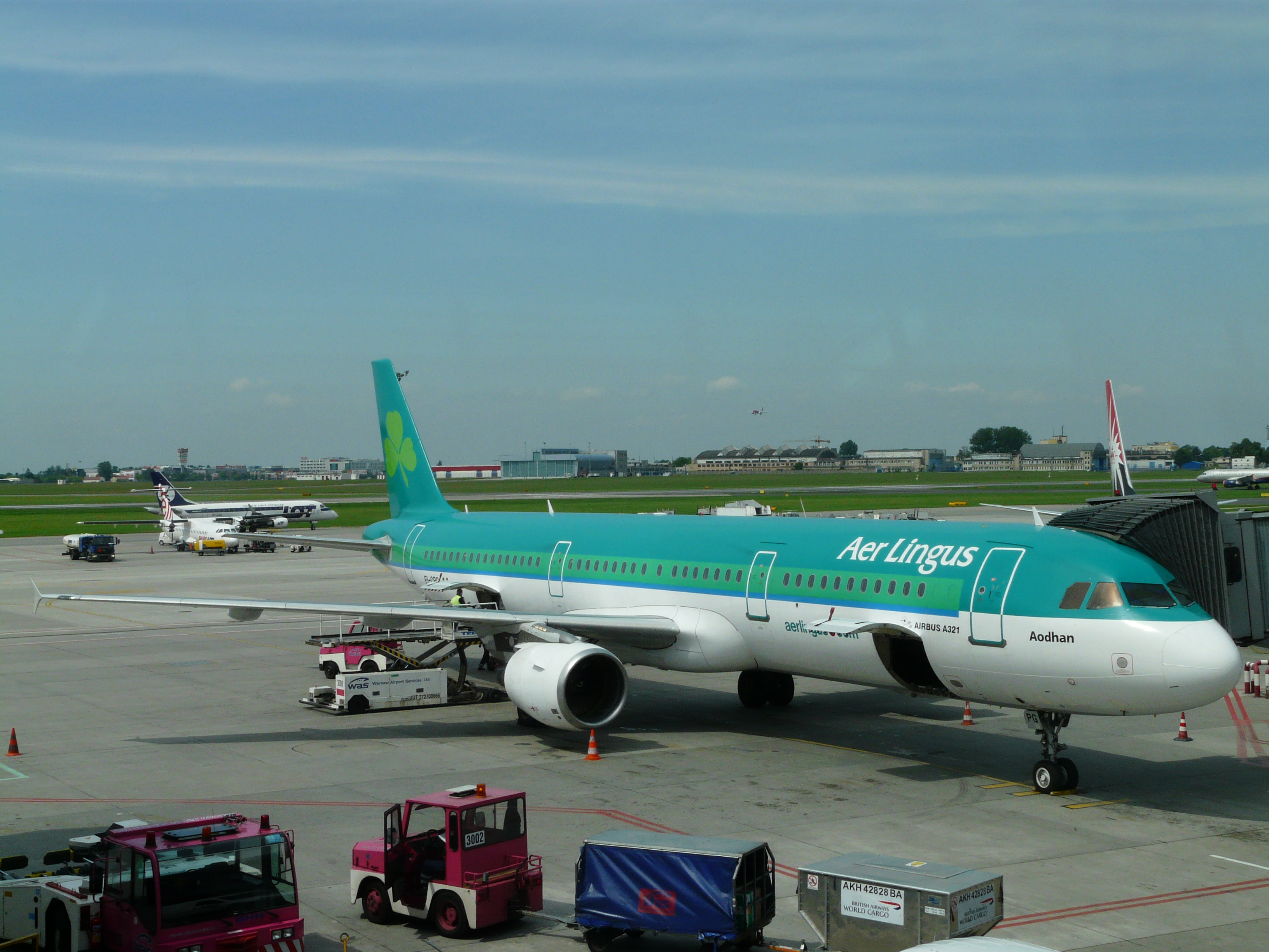 An Airbus A321 of Aer Lingus registered EI-CPG at Warsaw Airport.